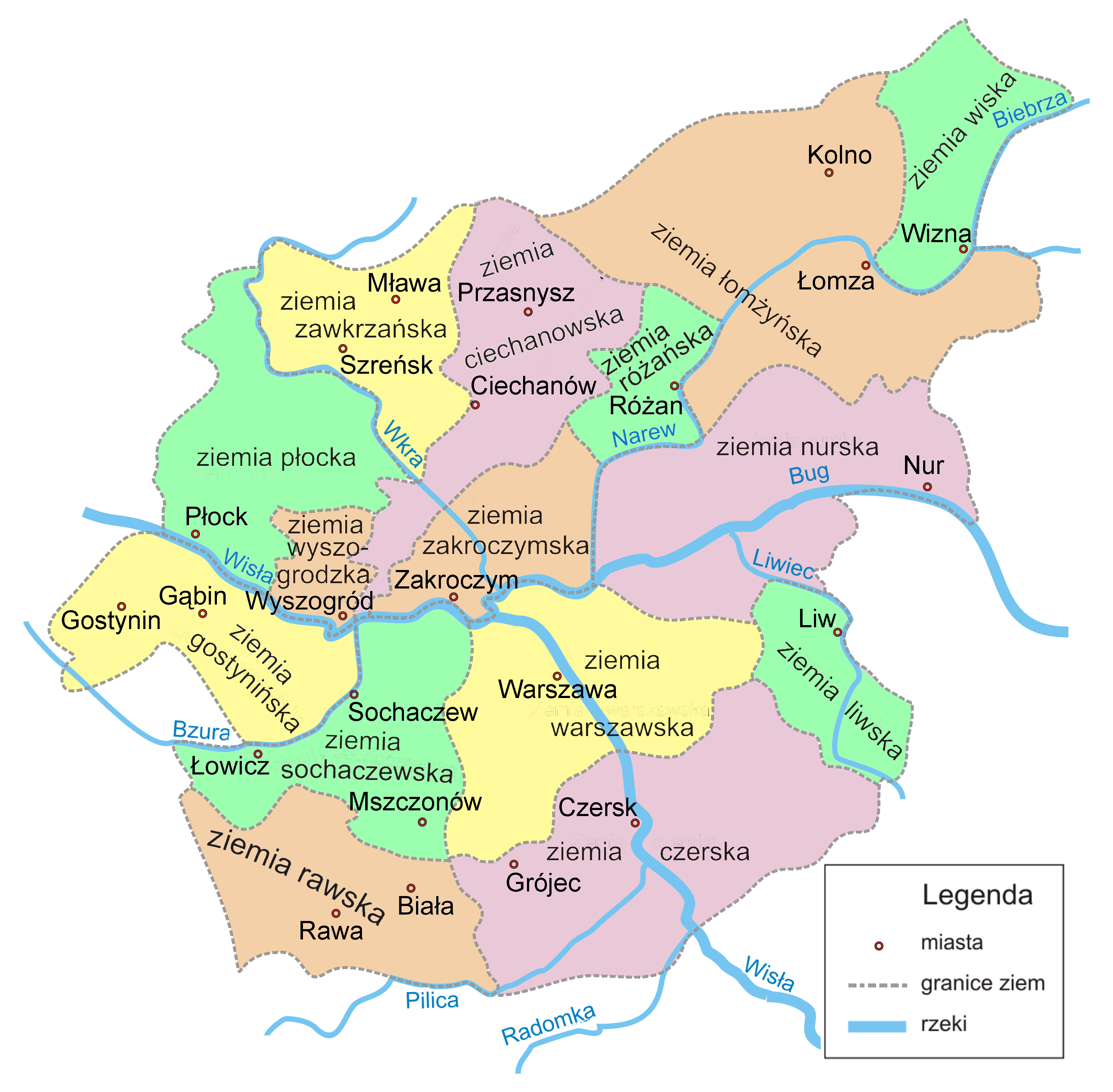 Historical division of Mazovia (13th-18th century)